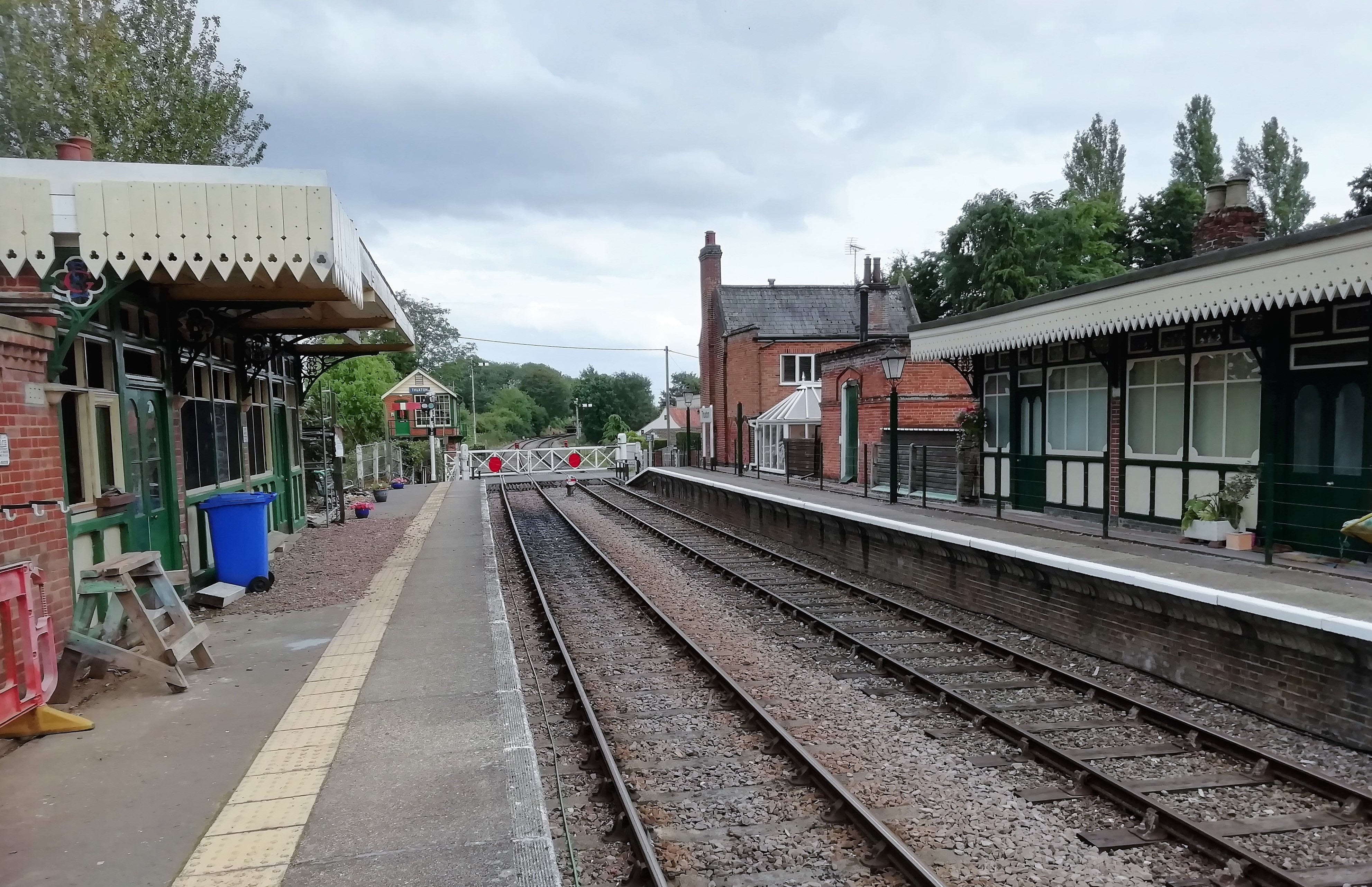 Depicted place: Thuxton railway station